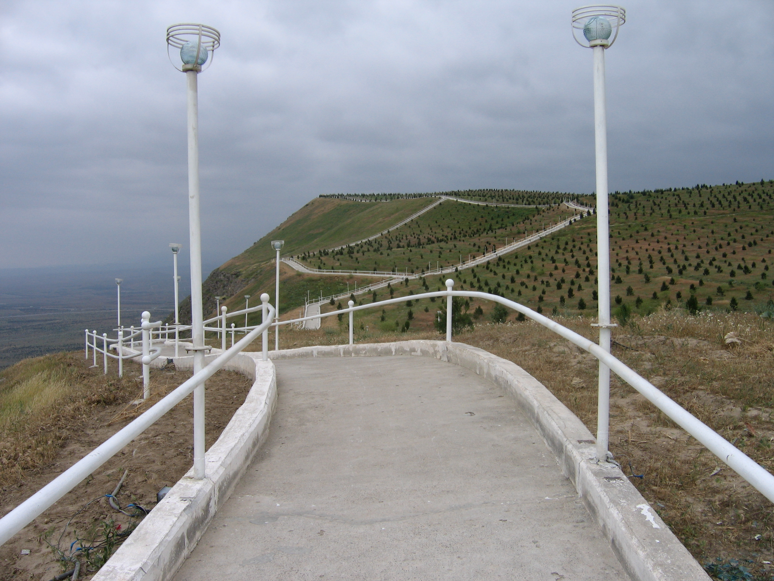 Halfway through the walk of health